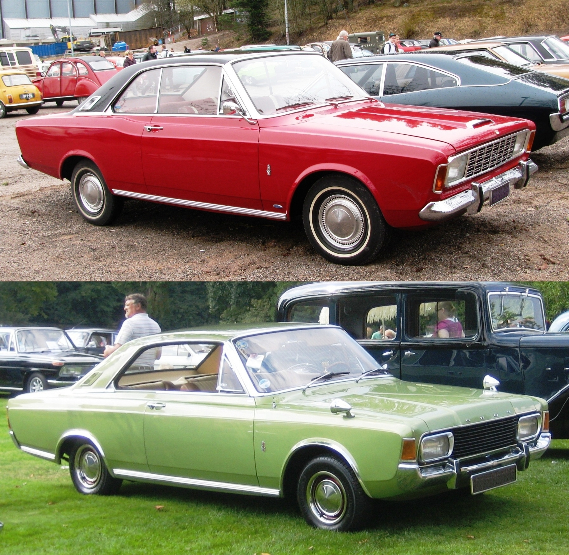 Ford P7a and Ford P7b coupes. I have placed two images one above the other in order to facilitate comparison before and after a facelift. The upper image was uploaded by wiki user Gwafton using licence(s)